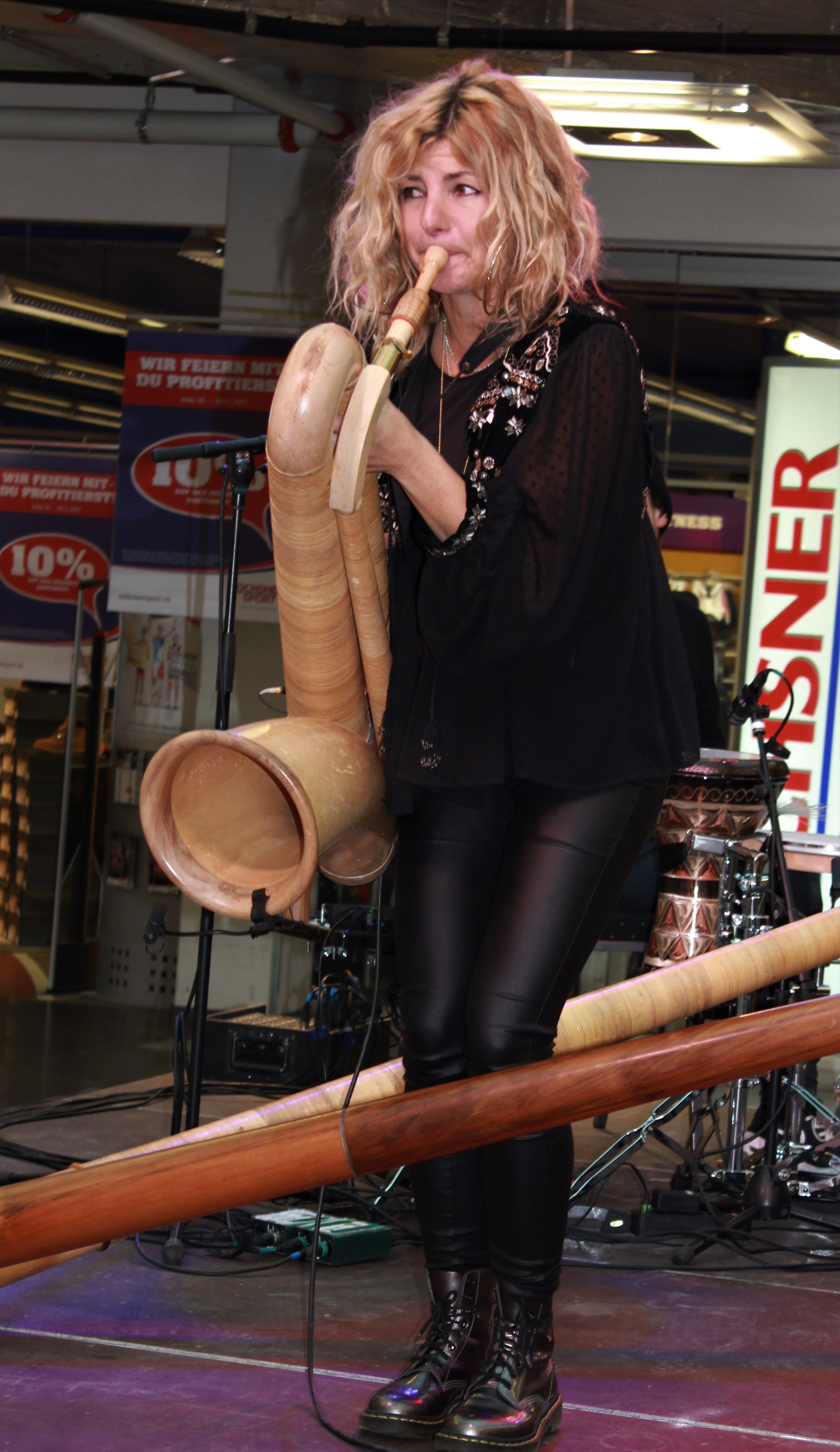 Swiss alpine horn player Eliana Burki playing jazz on her „Burki-Horn“, a special built instrument which allows a chromatic performance (mix of alphorn and tenor horn).